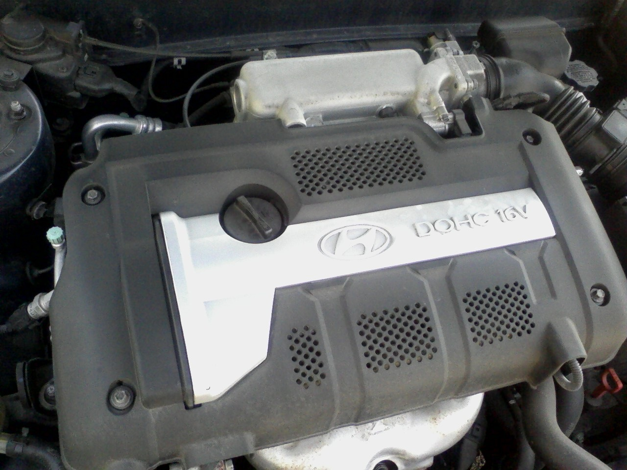 2006 Hyundai Elantra 2.0L DOHC Engine. Taken with my cell phone.